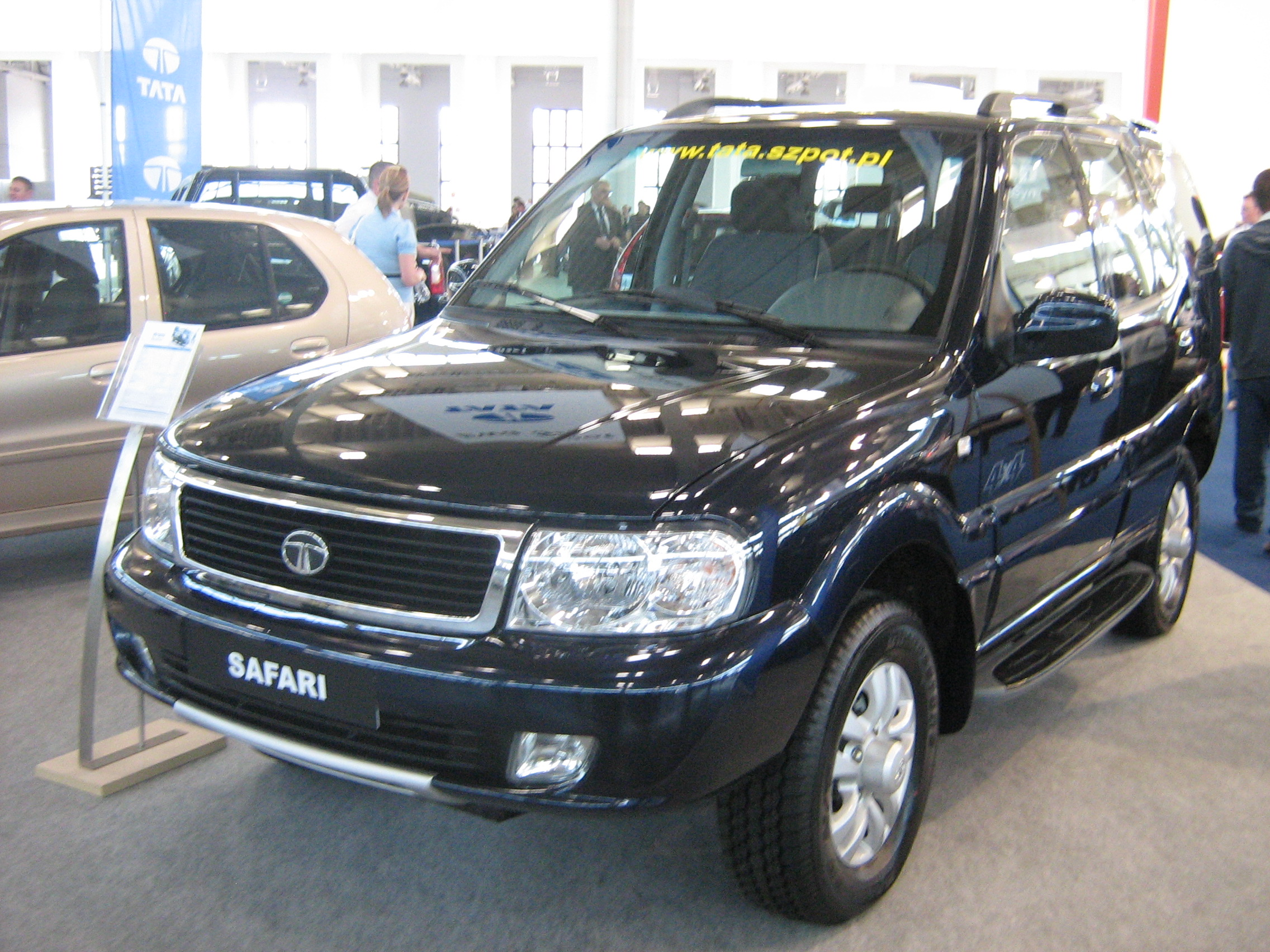 Tata Safari - PSM 2009 in Poznan.